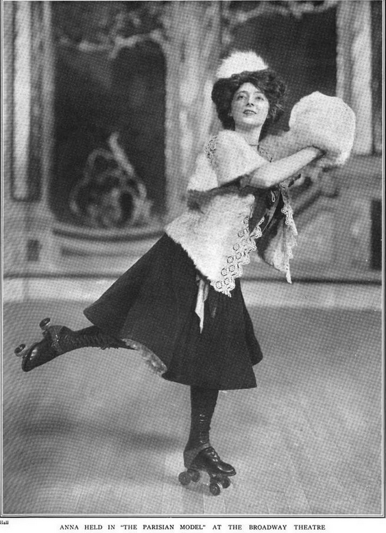 Photograph of Anna Held in 1906 Broadway musical "A Parisian Model", front cover of February 1907 magazine The Theatre.